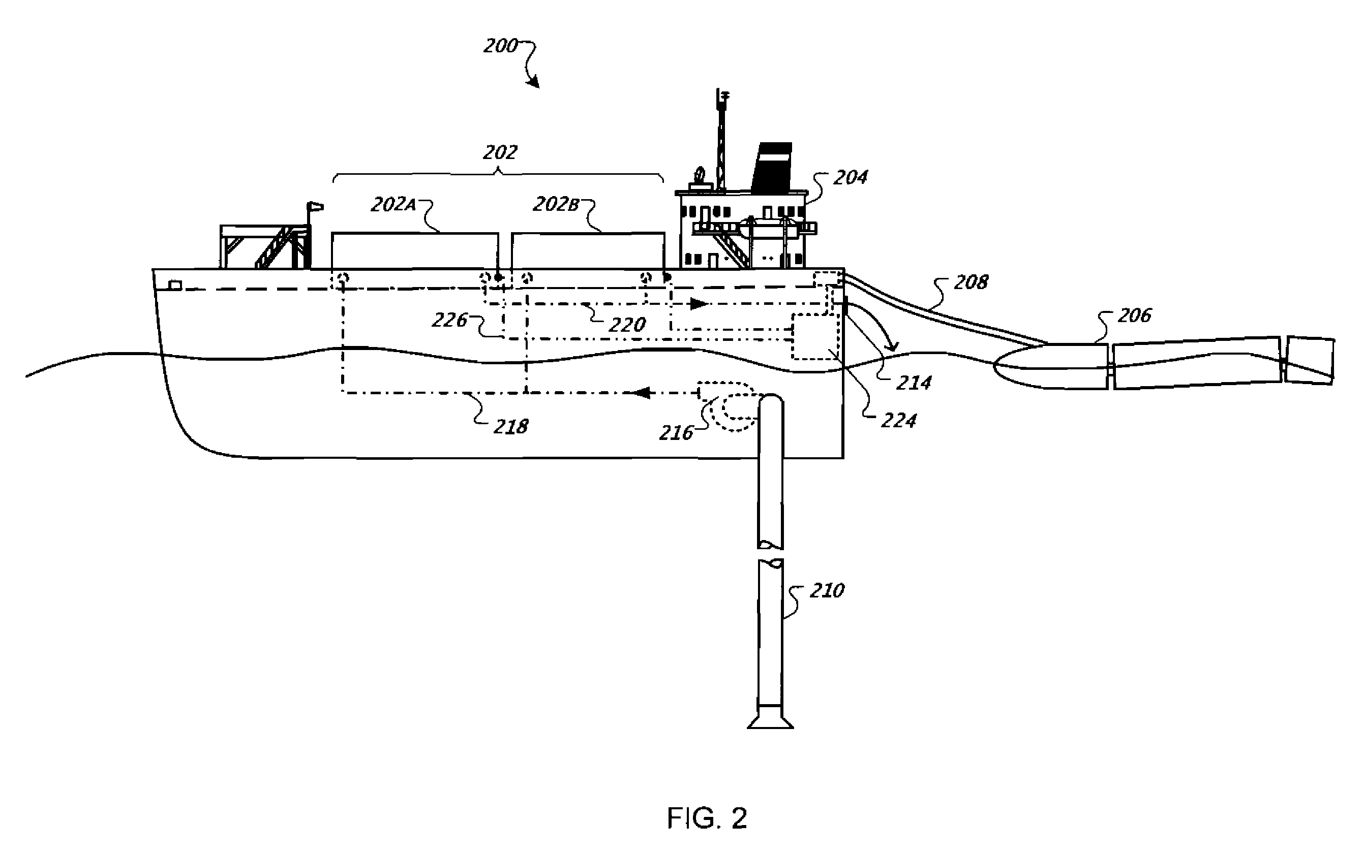 US Patent 7525207 - Water-based data center Assigned to Google, Inc. FIG. 2 is a side view of a floating data center system.